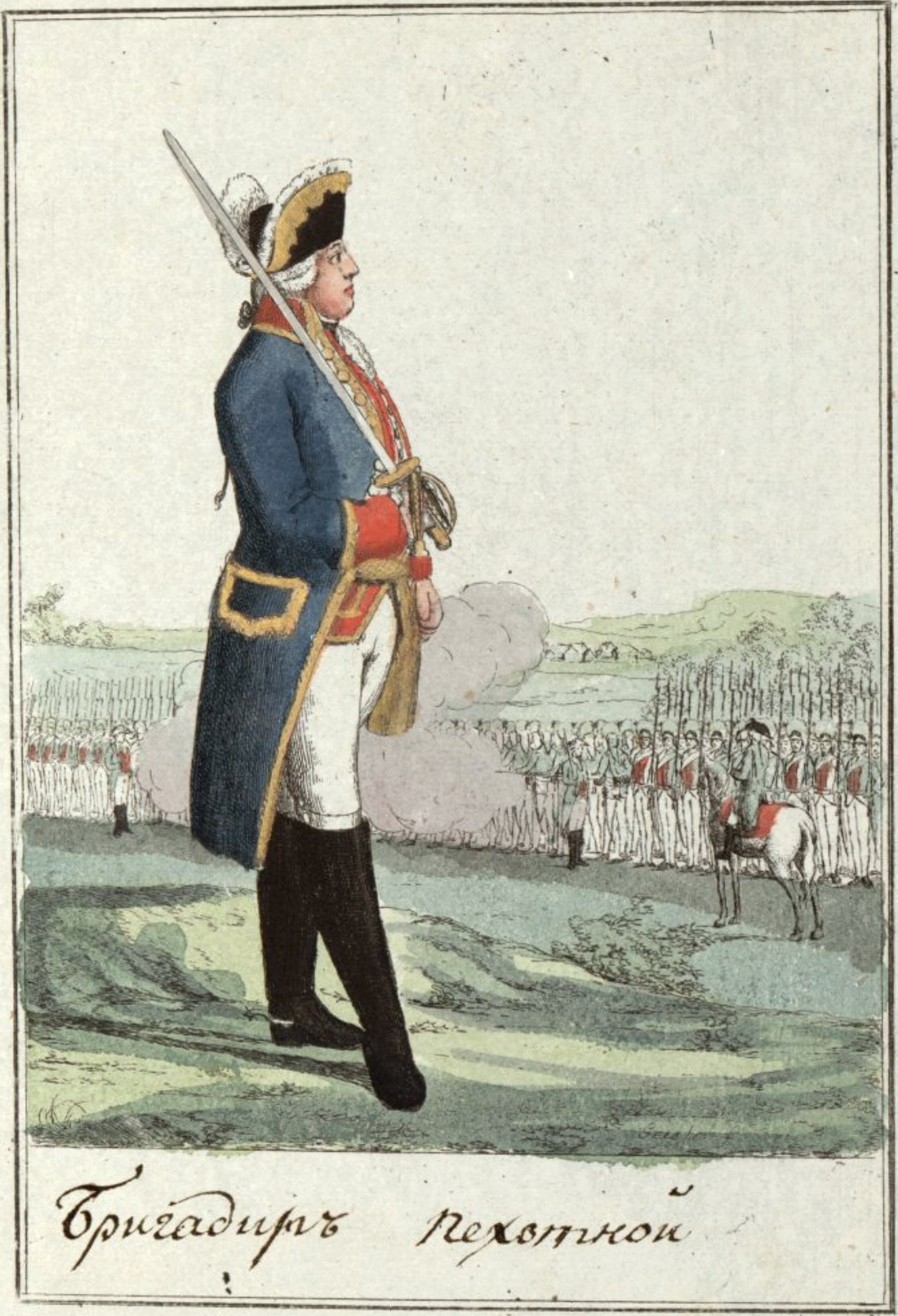 Infantry Brigadier